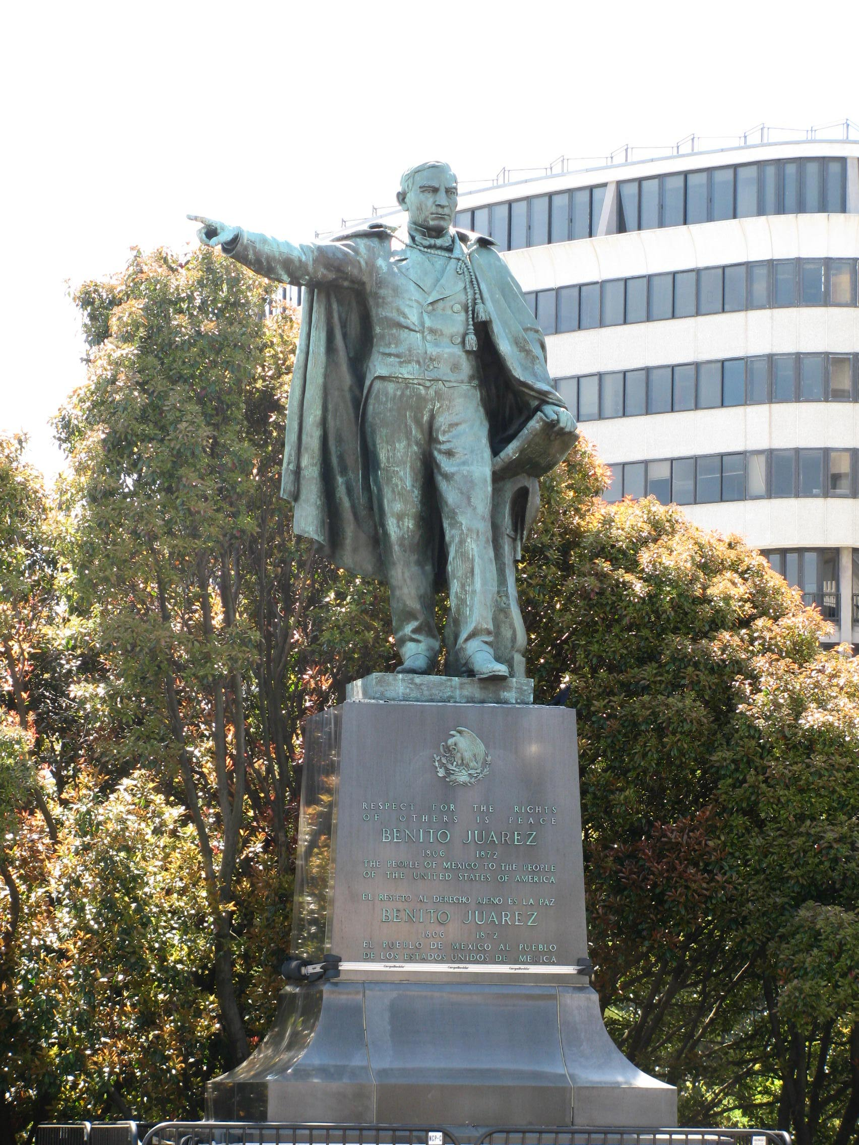 Benito Juarez, (sculpture). Other Titles: Benito Pablo Juarez (sculpture). Dates: Original cast 1891. Recast 1969. Dedicated January 7, 1969